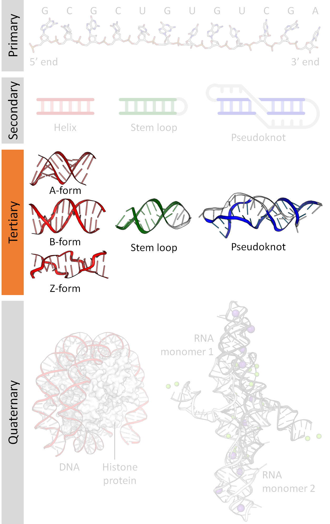 Summary of nucleic acid structure (primary, secondary, tertiary, and quaternary) using DNA helices and examples from the VS ribozyme and telomerase and nucleosome. (PDB: ADNA, 1BNA, 4OCB, 4R4V, 1YMO, 1EQZ​)